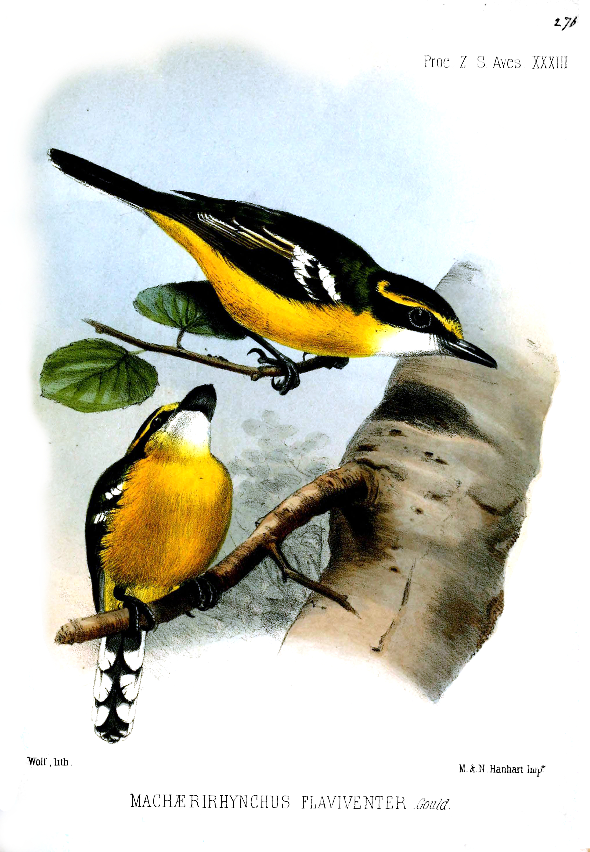 Machaerirhynchus flaviventer